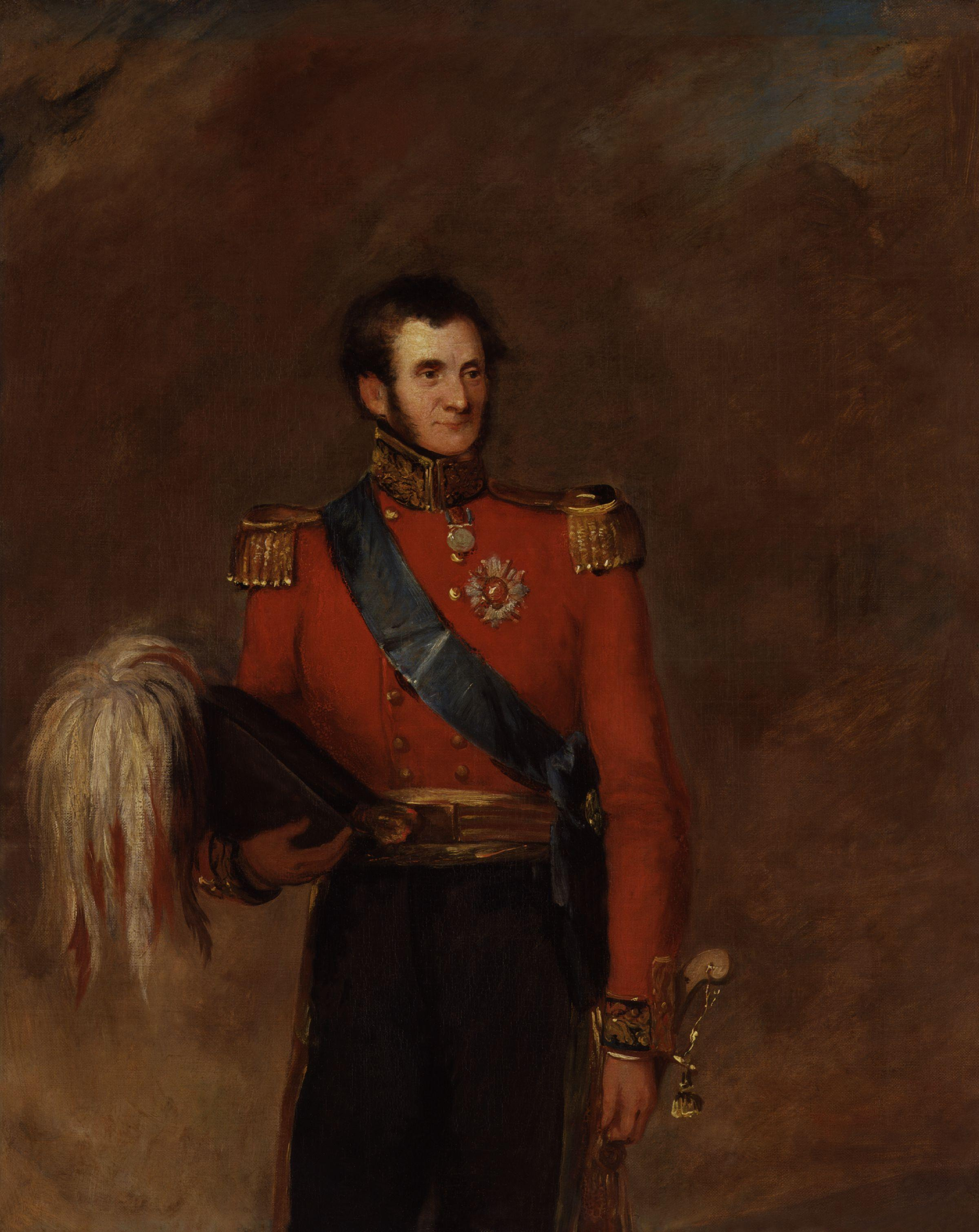 Sir Edward Kerrison, 1st Bt, by William Salter (died 1875). All images in this batch have been confirmed as author died before 1939 according to the official death date listed by the NPG.